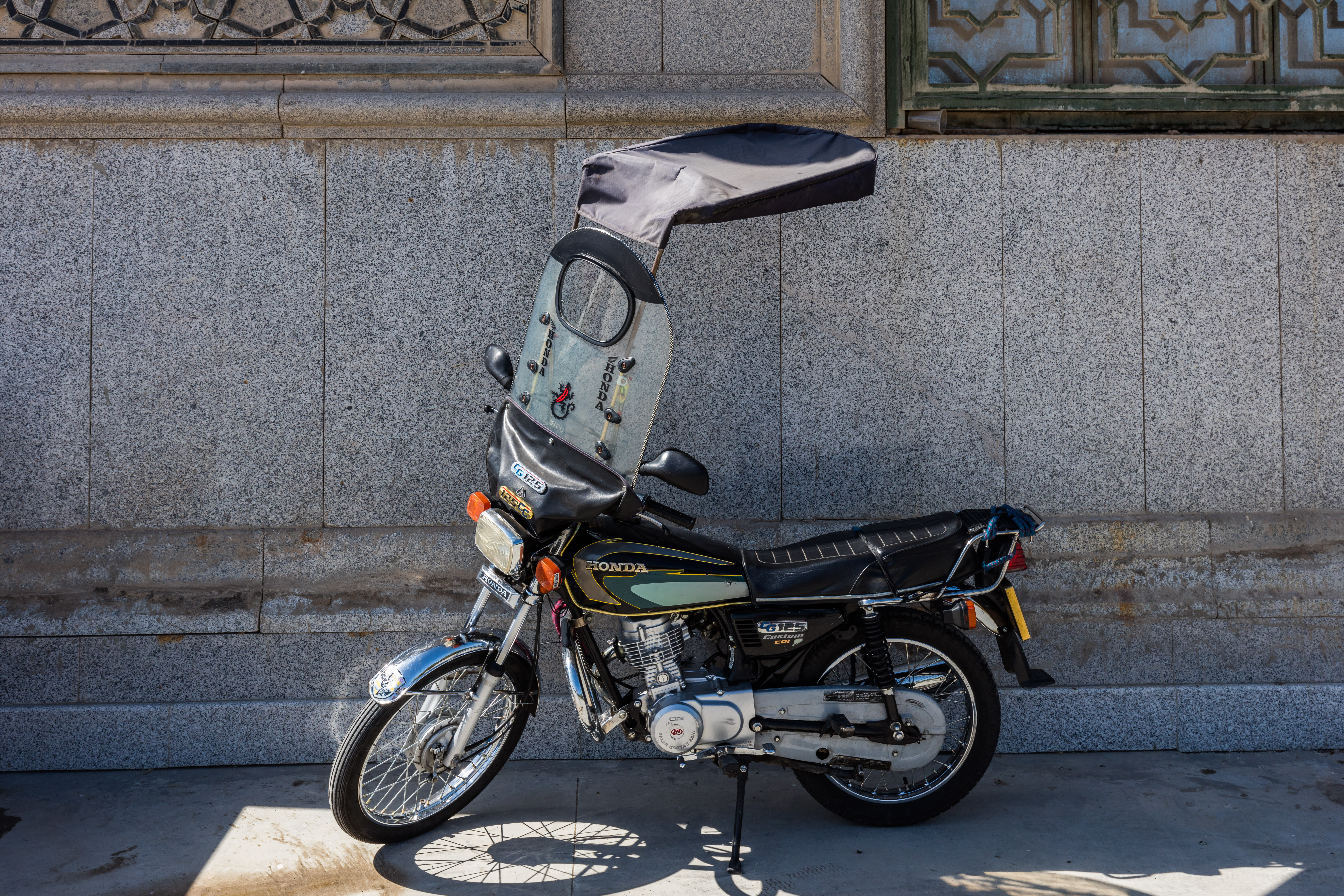 Motorcycle with cover, Tehran, Iran